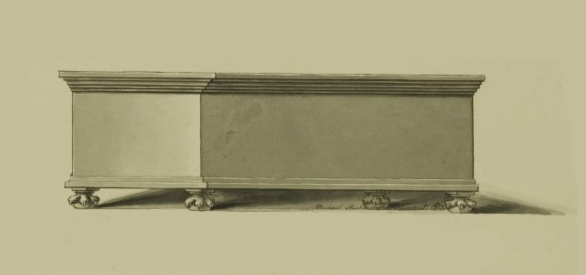 Sarcophagus of Queen Barbara Zapolya (Szapolyai Borbála)